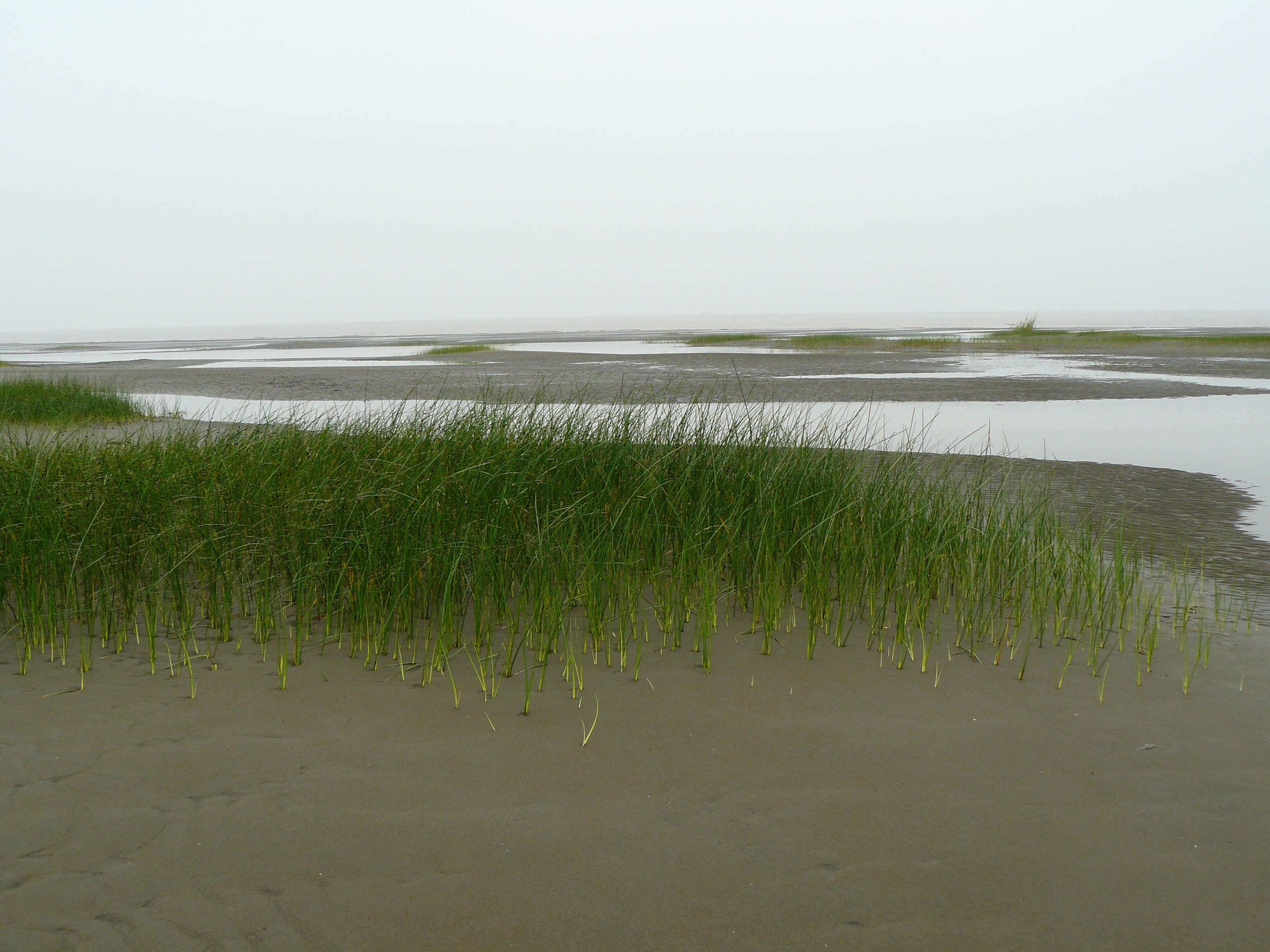 A wetland beach at Jiuduansha, a collection of shoals off eastern Shanghai in China